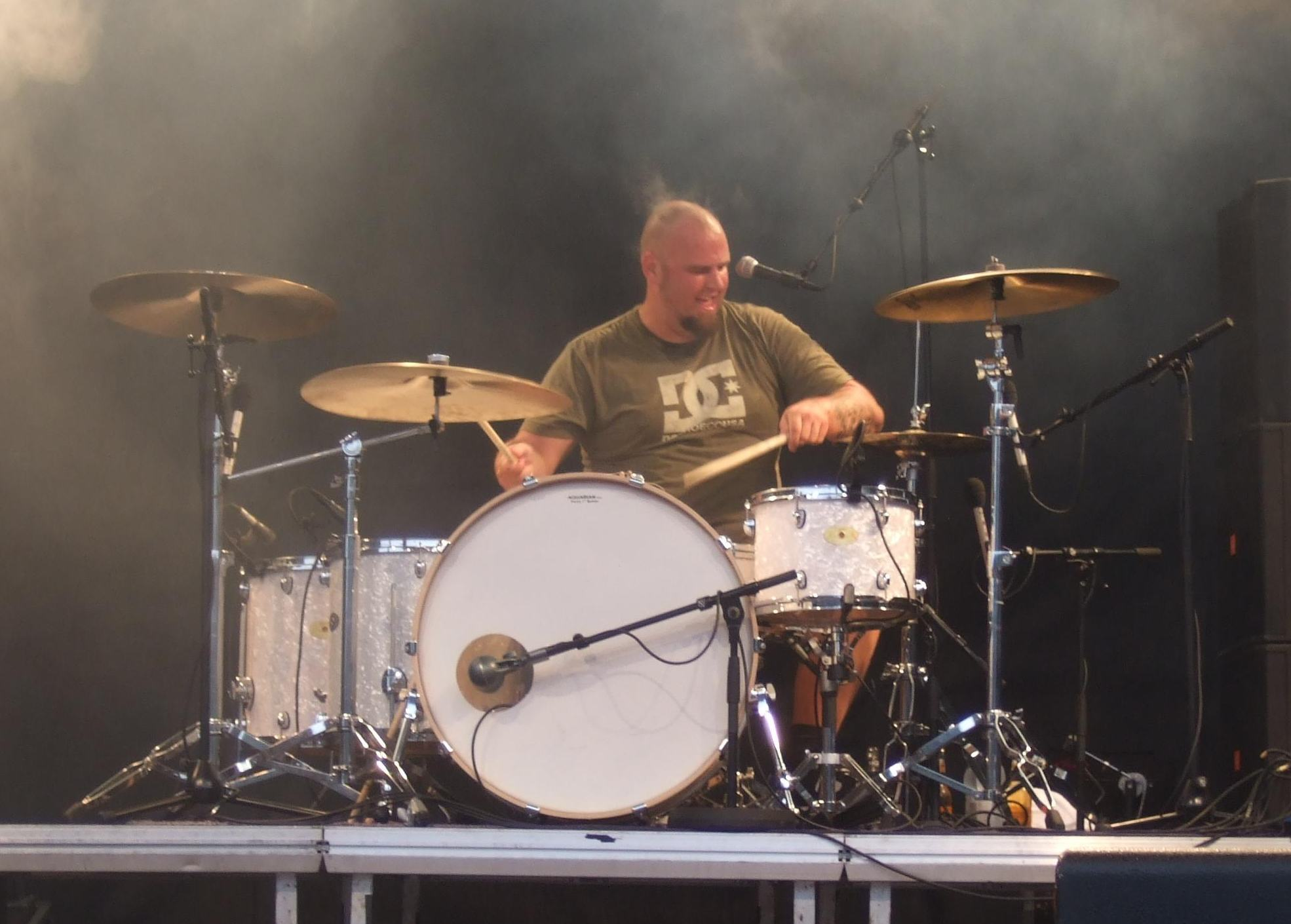 El Caco at the park festival in Bodø 2007